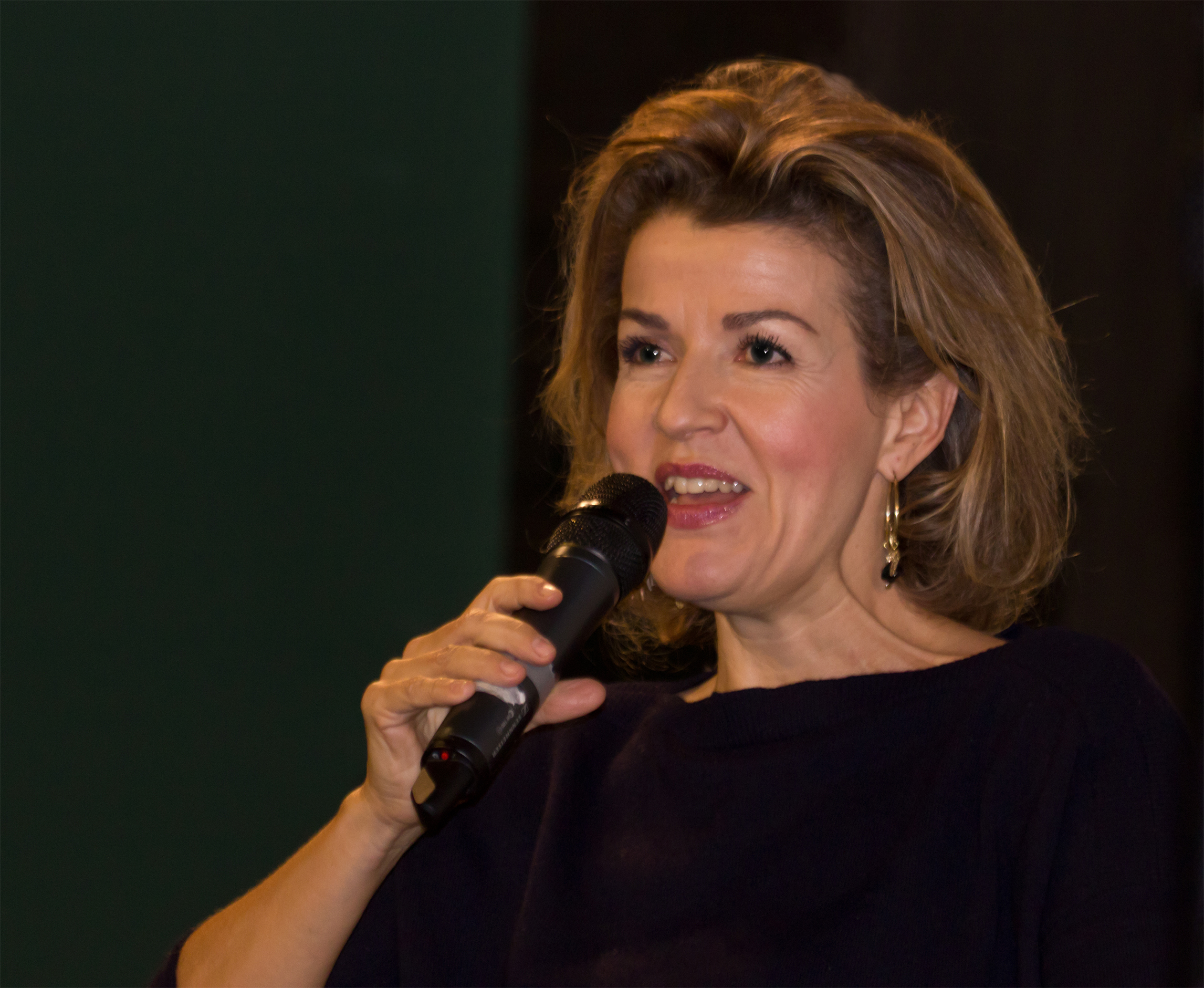 Anne-Sophie Mutter (* 1963), a violinist from Germany, in Berlin.